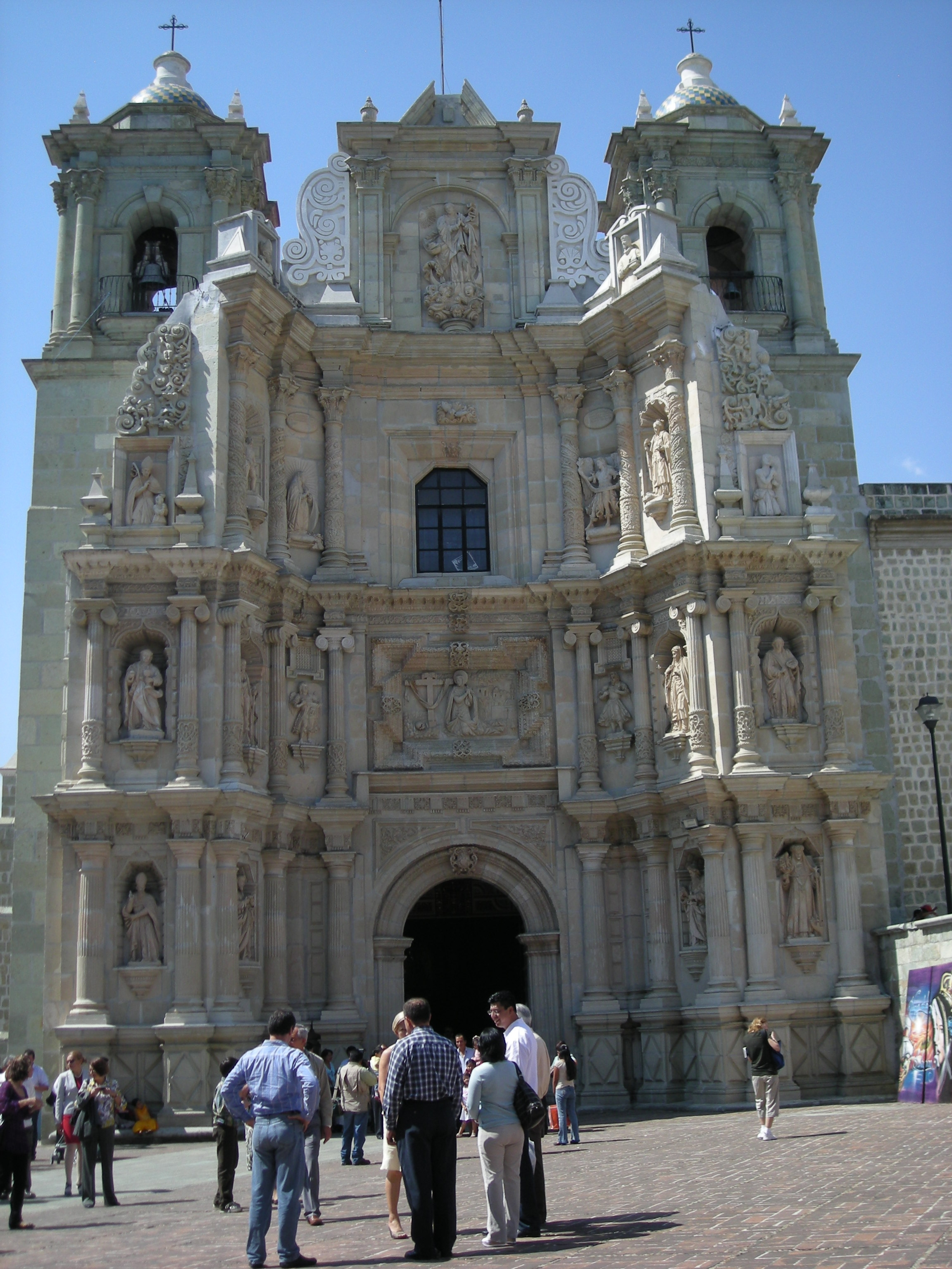 Front of the Basilica of the Virgen de Soledad in the city of Oaxaca Mexico